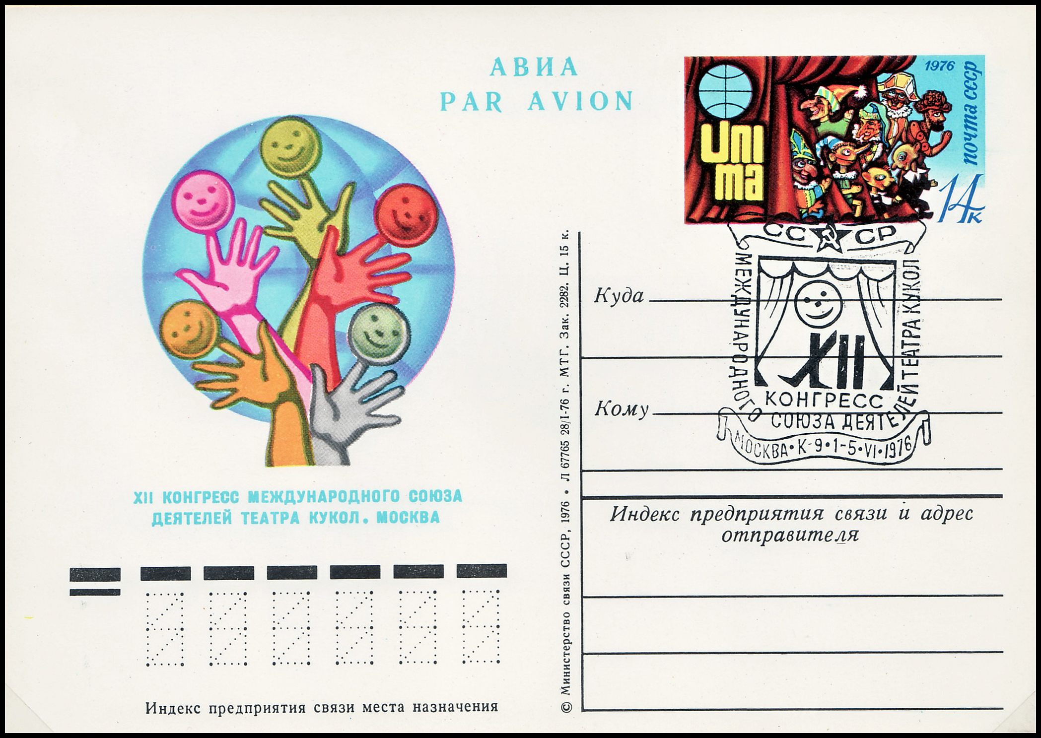 USSR, 1976. Postal card with commemorative stamp. International Airmail. "XII Congress of the International Puppetry Association (UNIMA). Moscow" (CPA Catalogue №39). Stamp: Emblem of Congress, puppet shows personages on the background of a theater curtain. Illustration: Five hands with puppet masks on the background of a stylized globe. Painter Y. Levinovsky. Special cancellations: "XII Congress of the International Puppetry Association " 1-5.6.1976 Moscow, post office K-9.